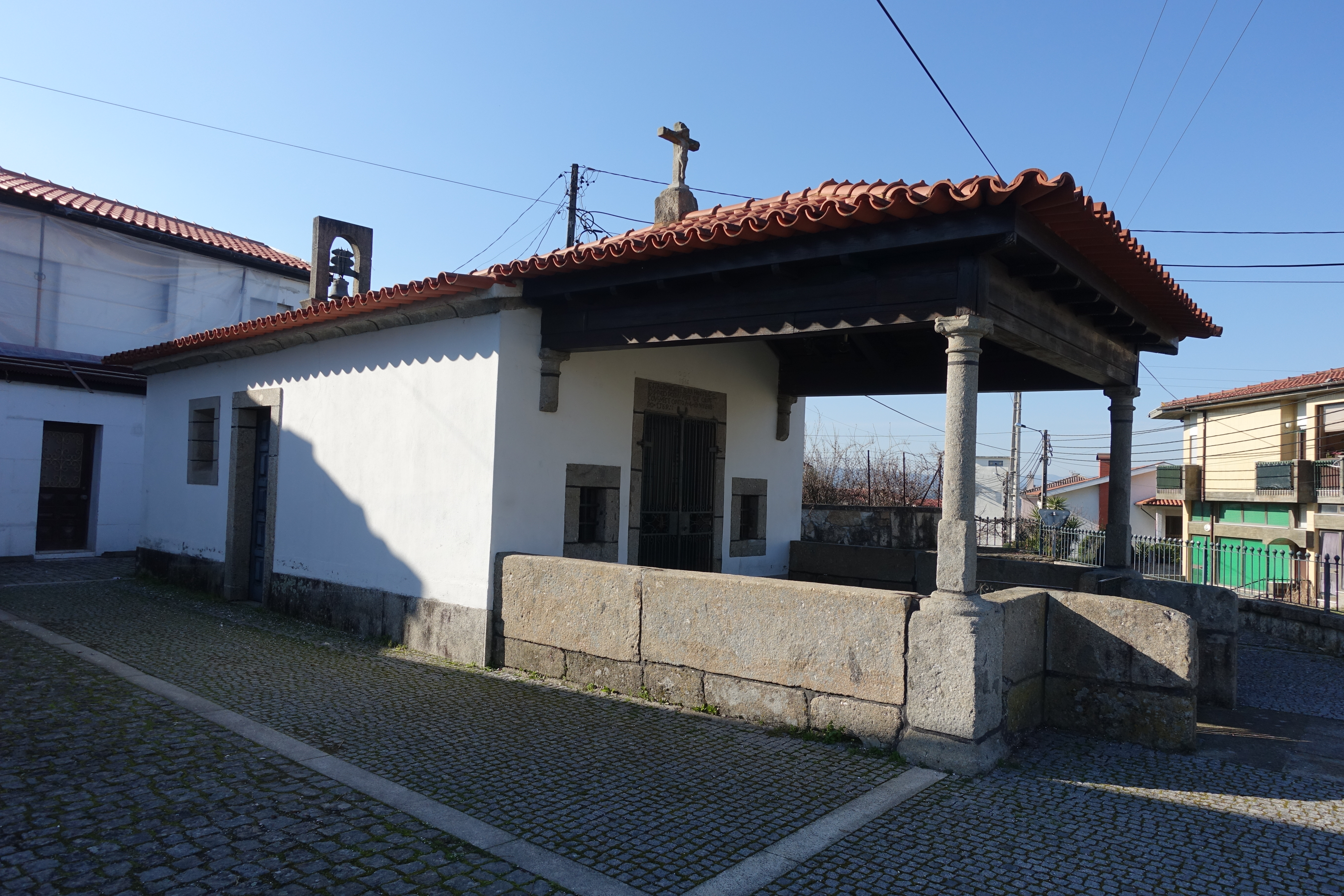 São Paio de Merelim, Portugal.